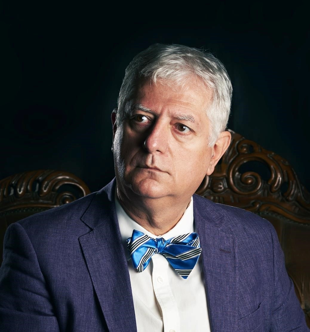 Portrait of Daniel Ionita